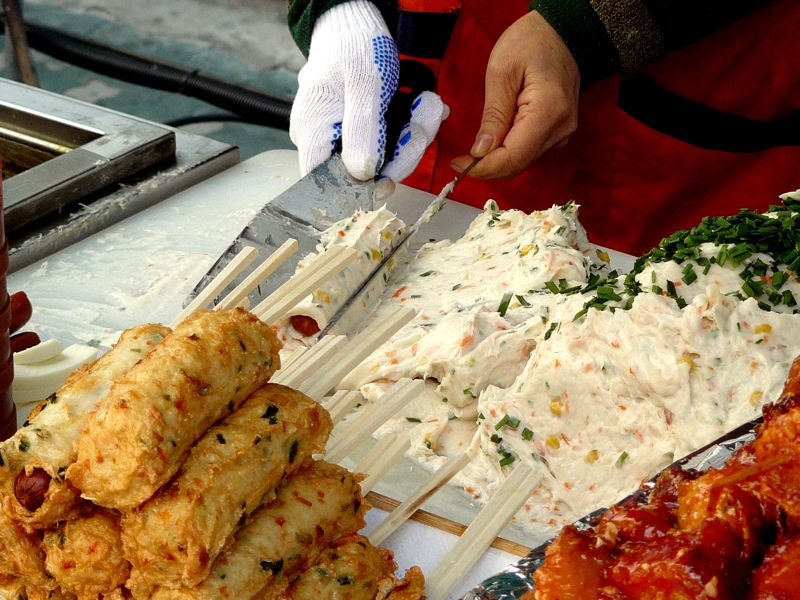 Eomukbar (어묵마, fish cake corn dog), a South Korean popular street food